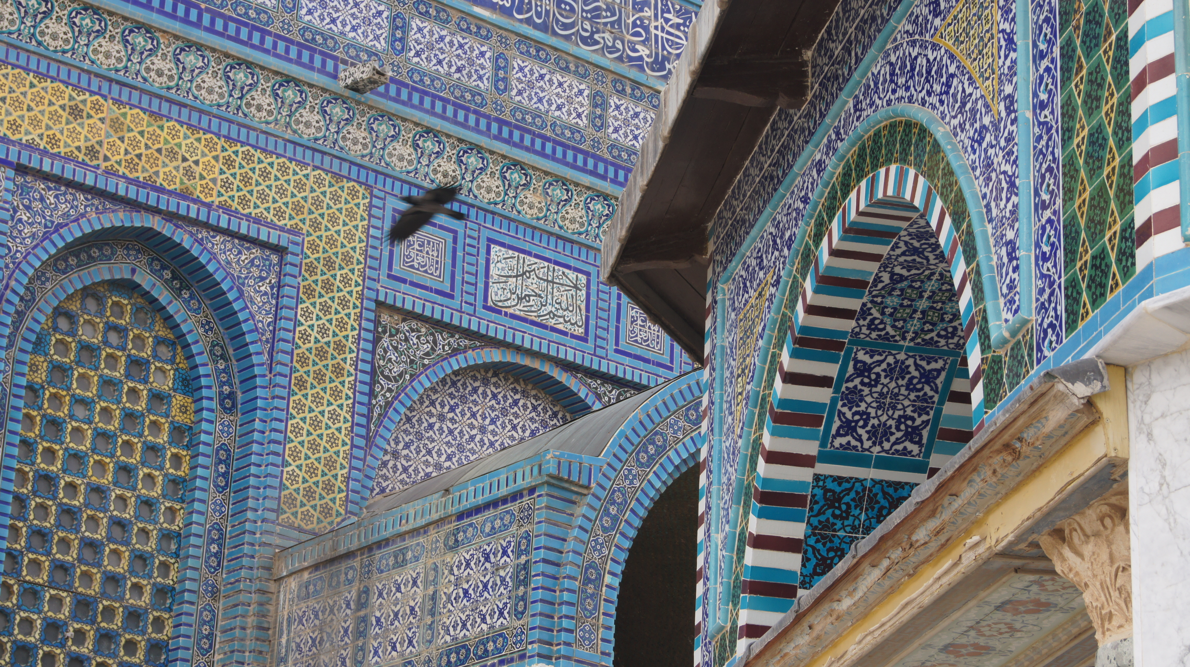 Ceramic tiles of the Dome of the Rock (qubbat as-sachra) on the Temple Mount in Jerusalem.